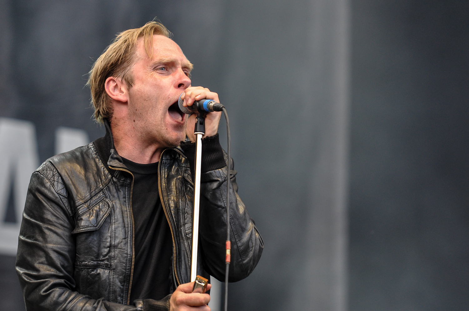 Katzenjammer performing at Greenville Festival 2013